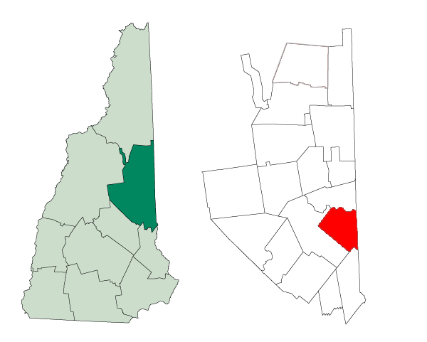 Created from Boundary/Border Outline Files of the Libre Map Project which held a BY-SA creative commons license. Data origionally from 2000 US Census boundary data.